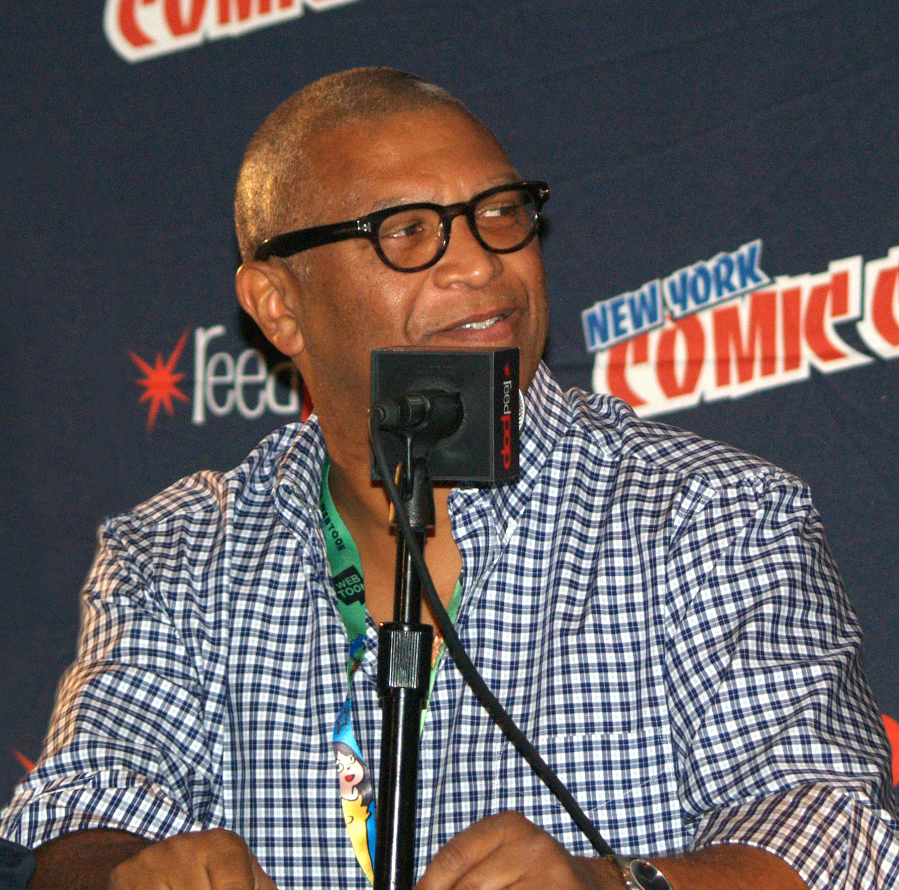 American filmmaker Reginald Hudlin at "The Return of the Dakota Universe" panel discussion on Thursday, October 5, 2017 at the Jacob K. Javits Convention Center in Manhattan, Day 1 of the 2017 New York Comic Con. This photo was created by Luigi Novi. It is not in the public domain, and use of this file outside of the licensing terms is a copyright violation.